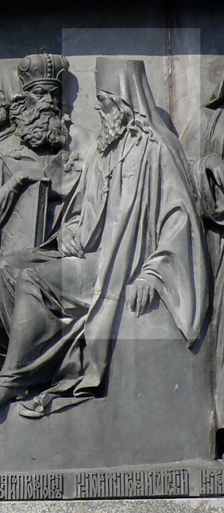 Platon (Levshin) on the Monument "Millennuim of Russia" in Veliky Novgorod